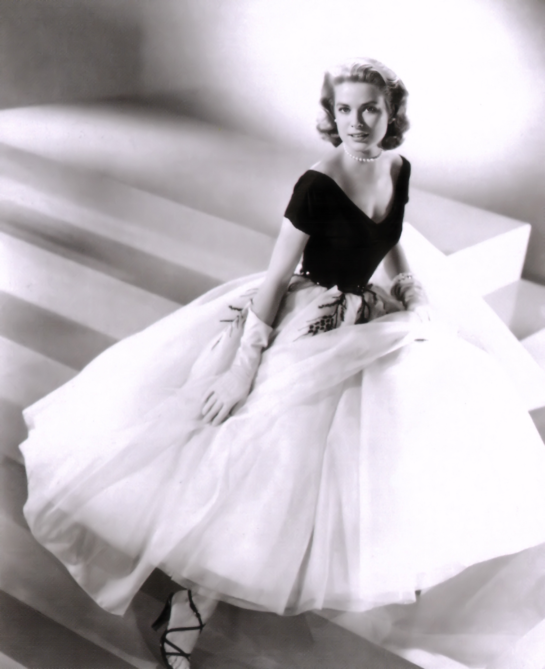 Studio publicity still of Grace Kelly for the film Rear Window (1954).